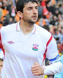 Miodrag Džudović playing for PFC Spartak Nalchik in 2010.